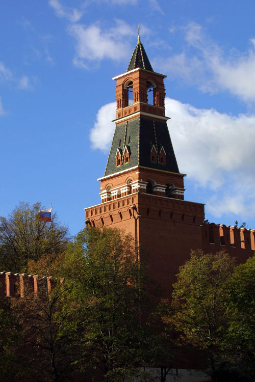 Moscow, the Kremlin. Nabatnaya Tower.